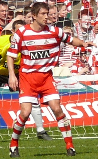 Graeme Lee, cropped from Bristol Rovers vs Doncaster Rovers